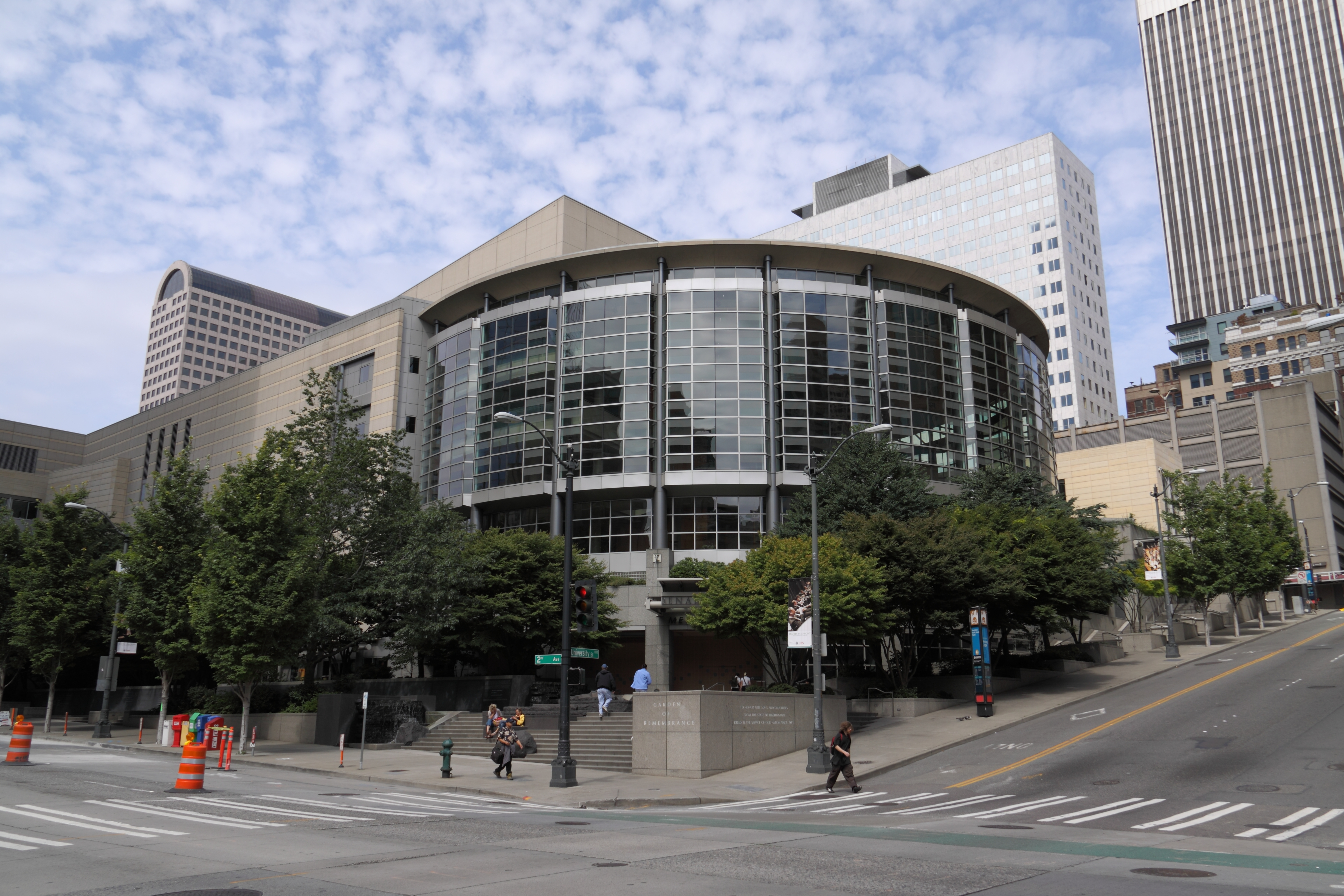 View of Benaroya Hall, from 2nd Ave and University St. The Garden of Remembrance is in the foreground.